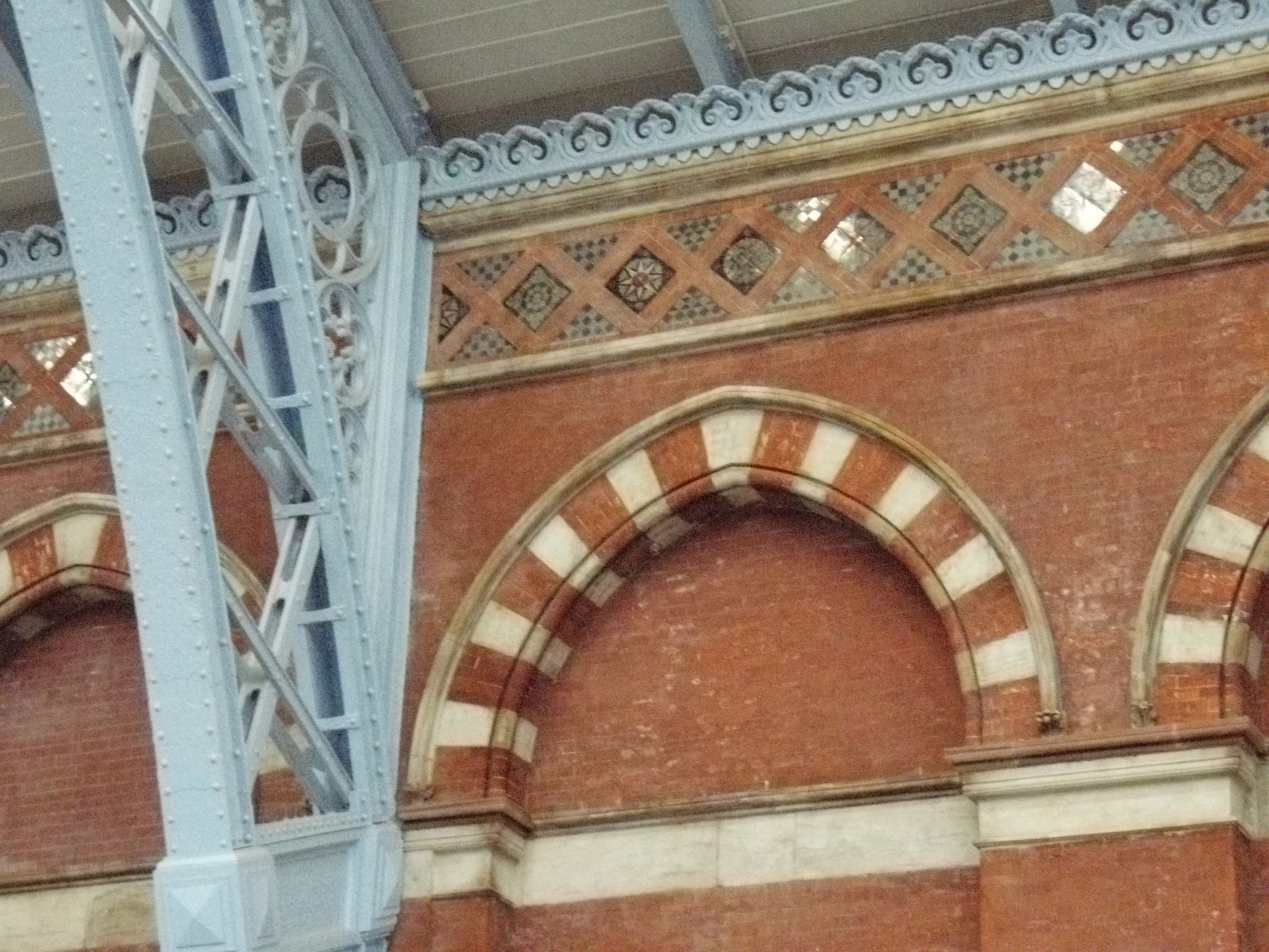 A close-up of some of the decoration used in St Pancras railway station. Photograph taken by me on 23rd January 2008 (edited to remove noise).